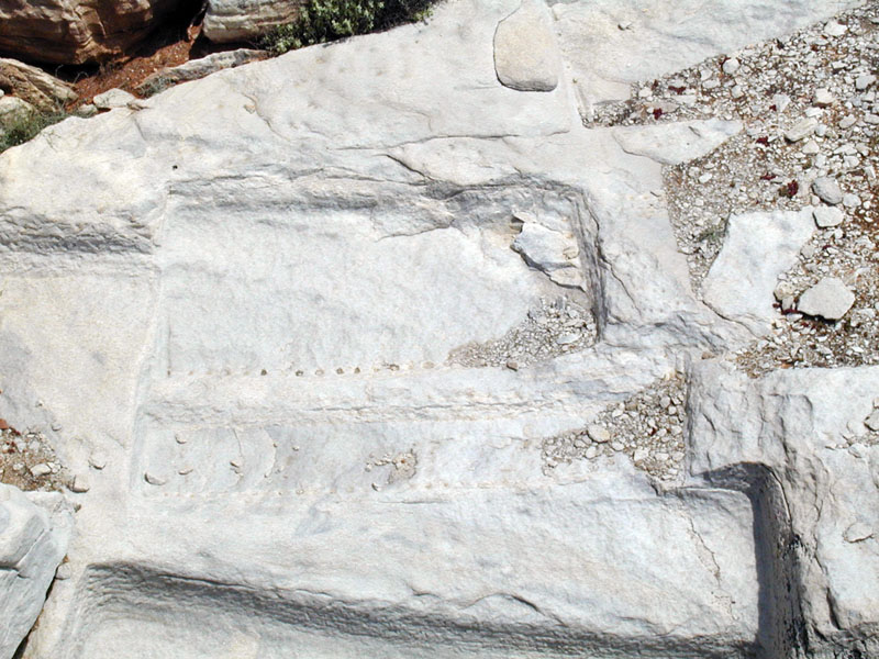 Photograph taken by Marsyas 14:01, 28 October 2005 (UTC)